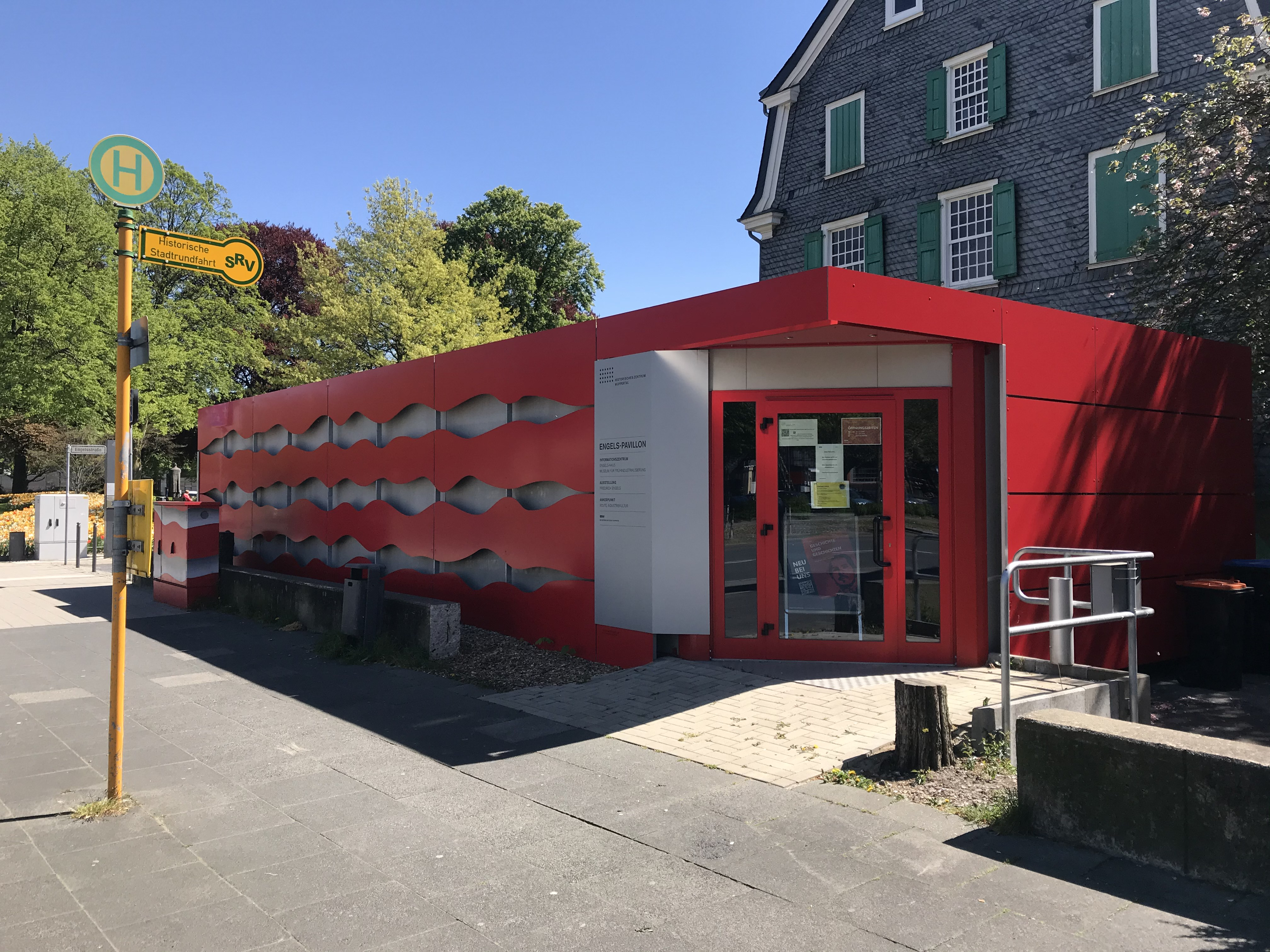 The new visitor centre at Historisches Zentrum Wuppertal, opened in 2018